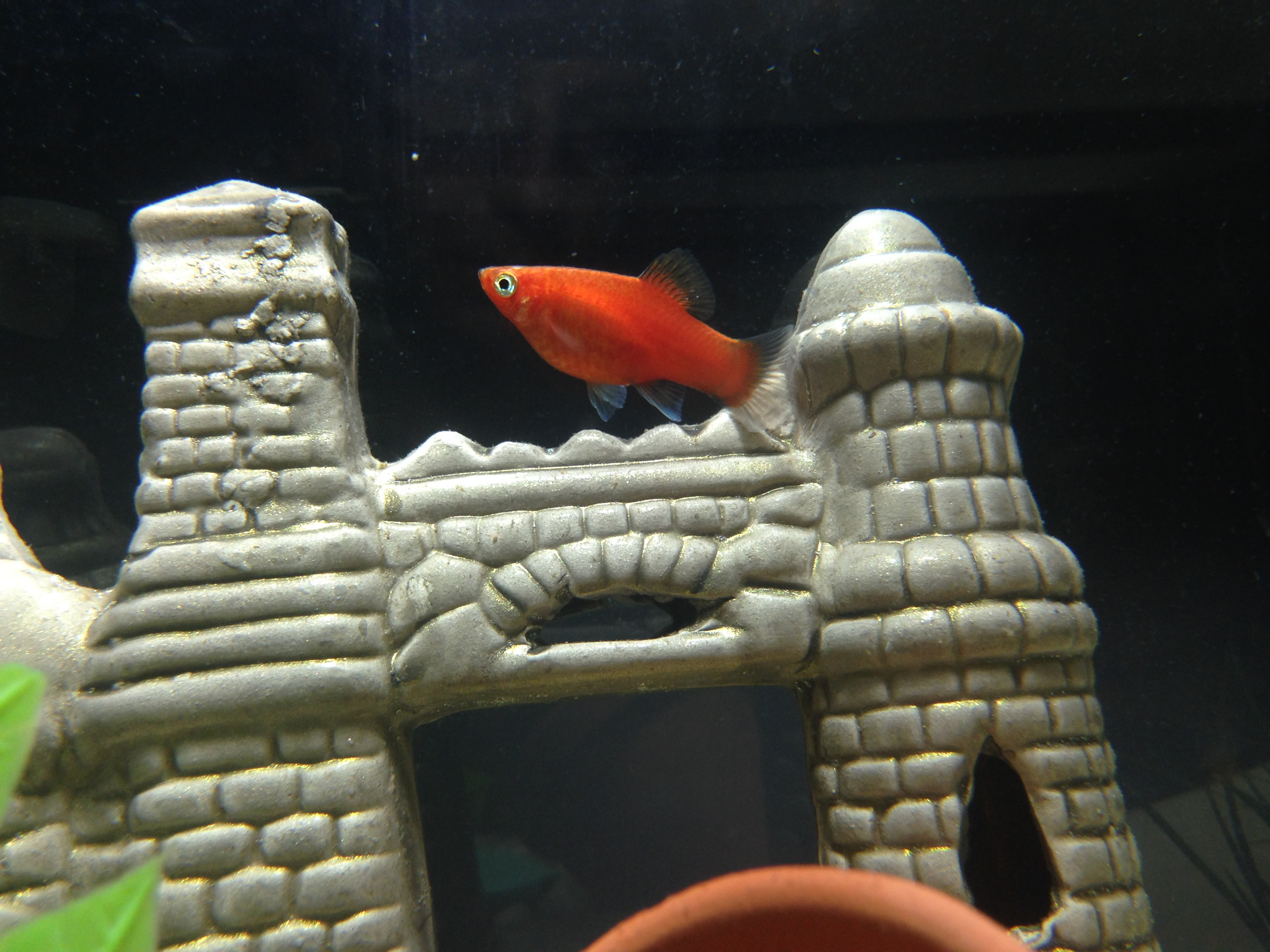 Platy fish's picture